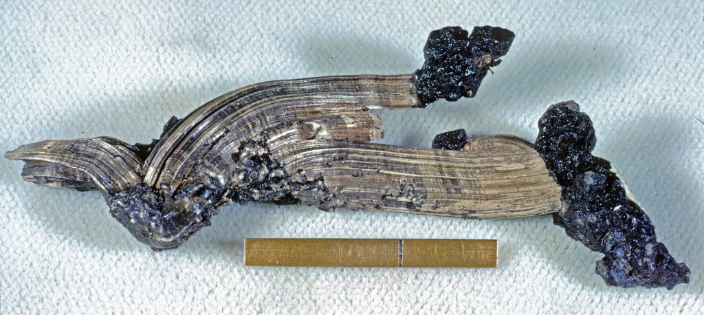 Silver and Acanthite Locality: Colquechaca (Aullagas), Chayanta Province, Potosí Department, Bolivia Original description: Specimen is from the collection of Harvard University (No. 95328) - Scale at bottom of image is one inch with a rule at one cm.